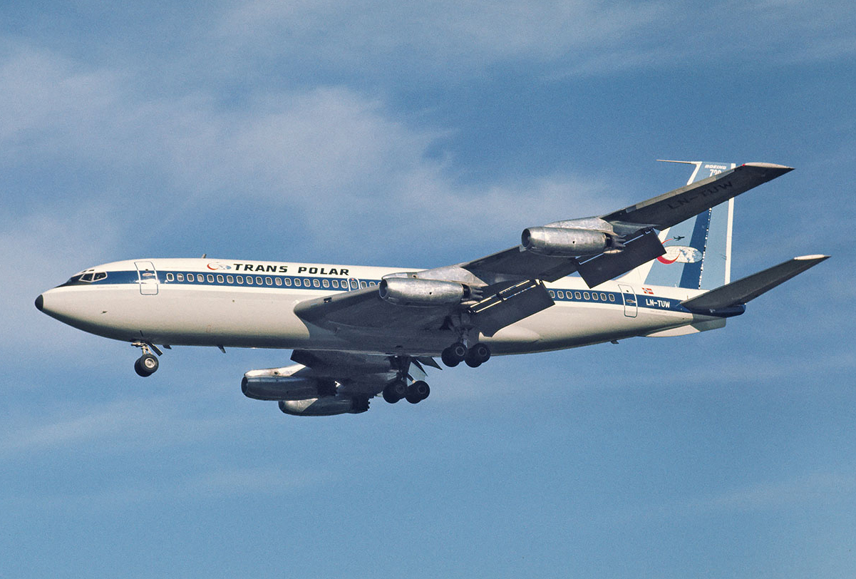 LN-TUW (cn 18158/234) This airline existed for just under a year